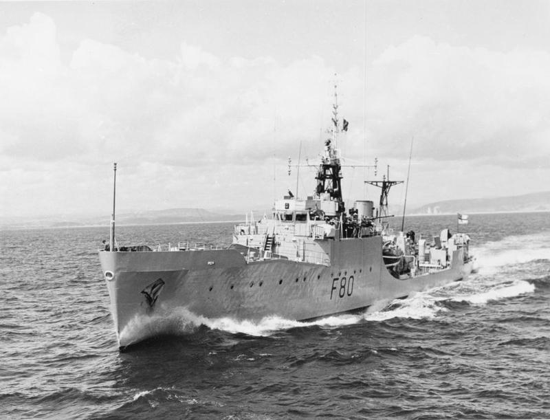 Type 15 Frigate HMS Duncan, July 1968 (IWM HU 129815)